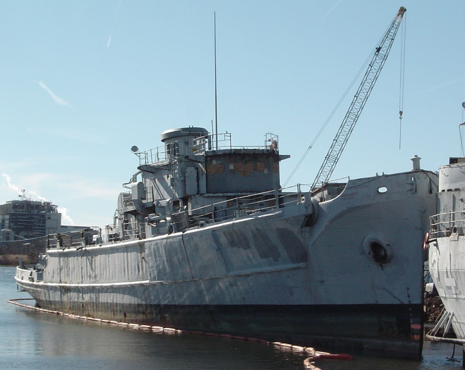 The decommissioned U.S. Navy rescue and salvage ship USS Hoist (ARS-40) moored pierside awaiting scrapping at Bay Bridge Enterprises, Chesapeake, Virginia (USA), in 2007.